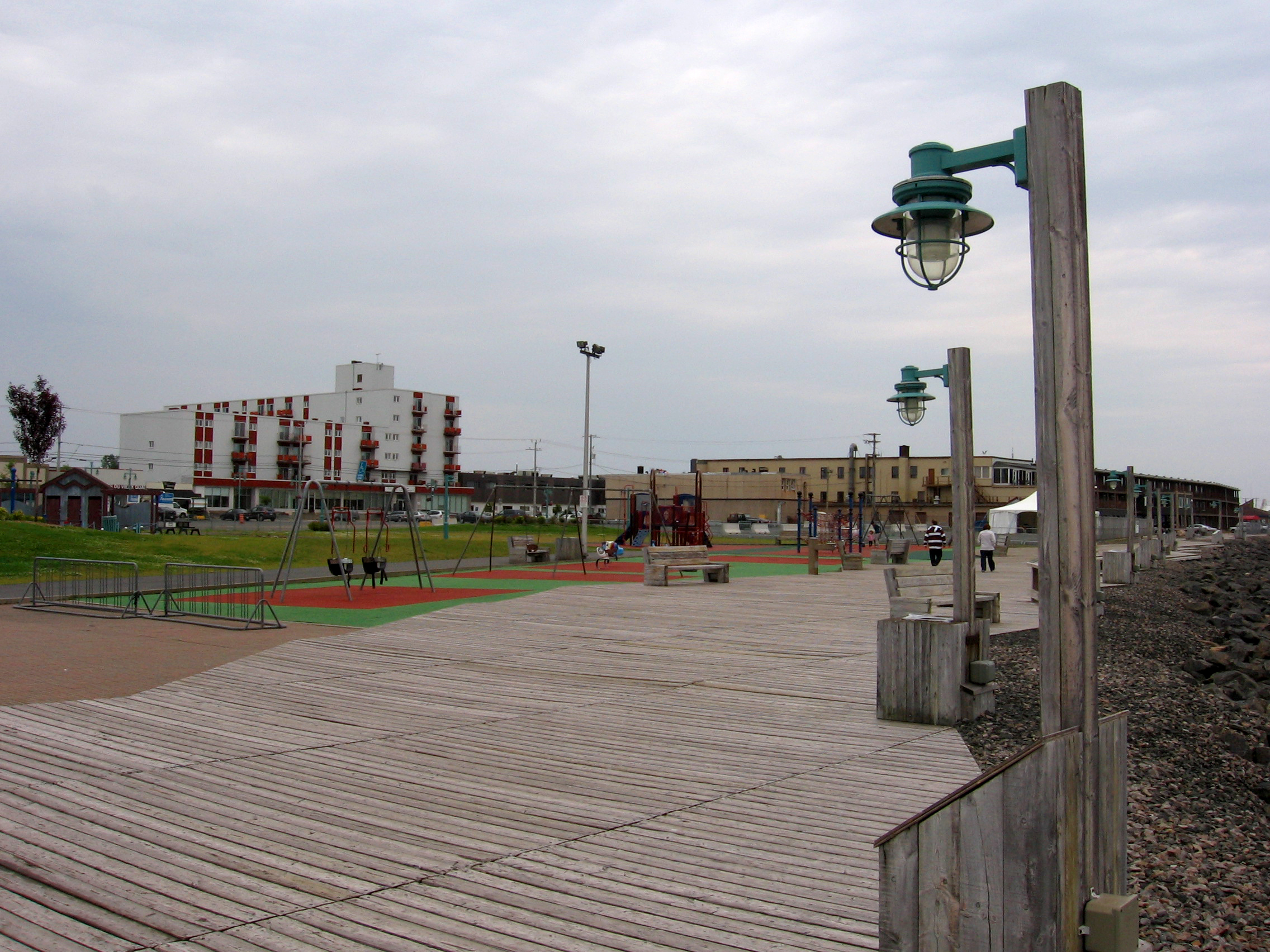 Sept-Iles